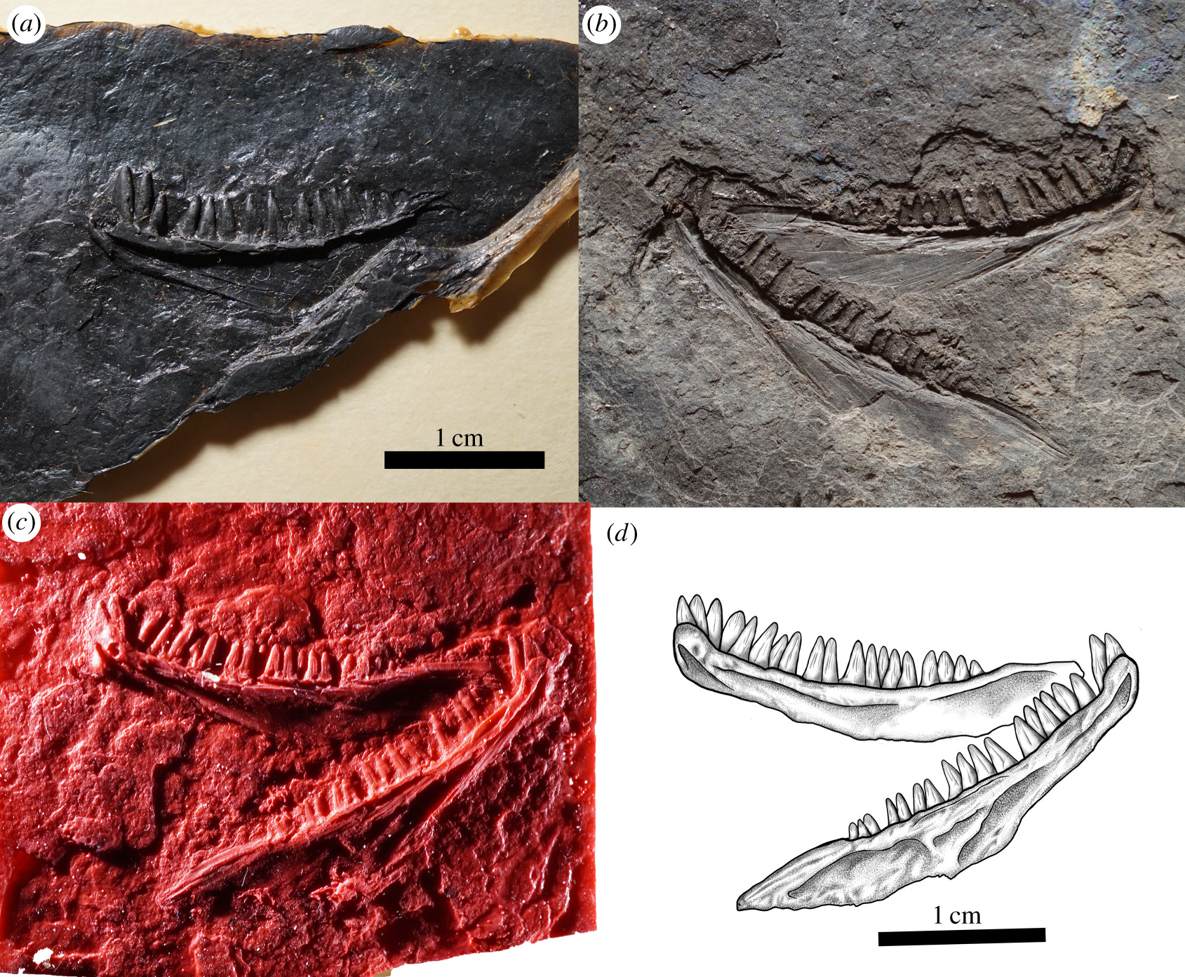 Referred specimens of Carbonodraco lundi gen. et sp. nov. (a) Latex peel of NHMUK R. 2667 showing a right jaw in lingual perspective (Kathy Bossy peel). (b–d) CM 81536. (b) Original cannel coal specimen, (c) latex peel, and (d) drawing, showing a pair of dentaries preserved in lingual perspective.